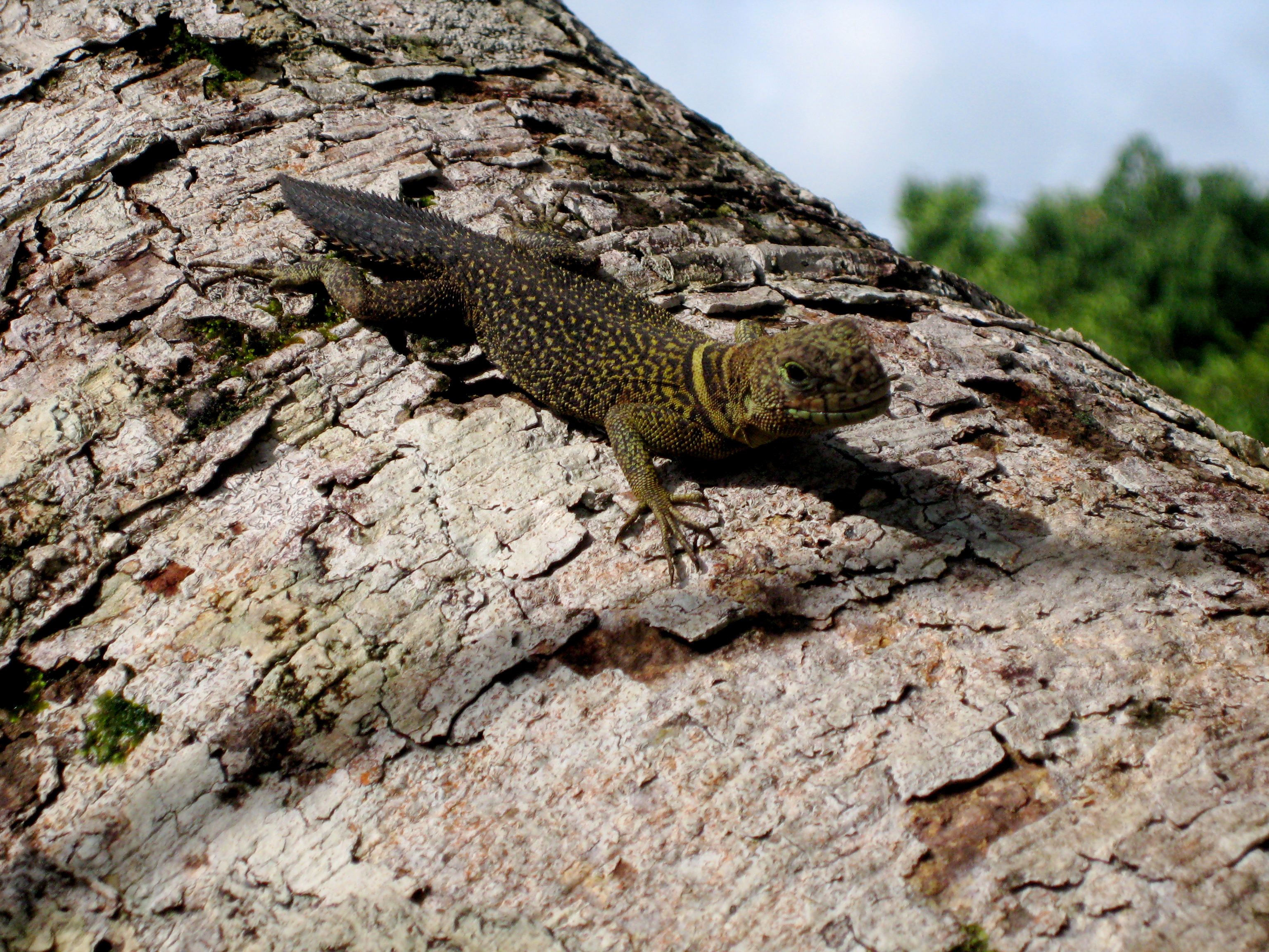 A female or juvenile Tropical Thorntail Iguana (Amazon Thorntail Iguana).